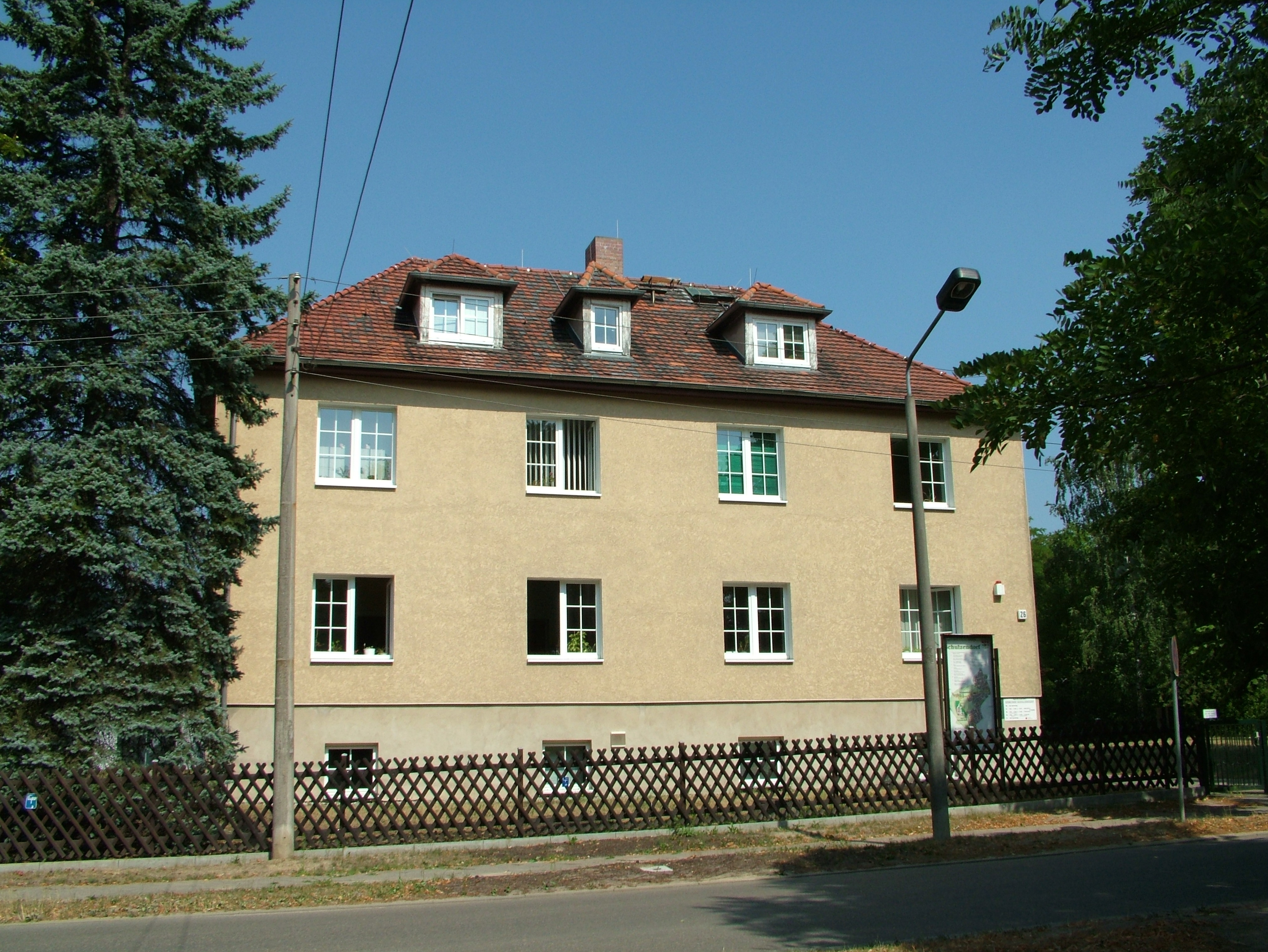 The town hall of Schulzendorf in Brandenburg, Germany, south-east of Berlin.